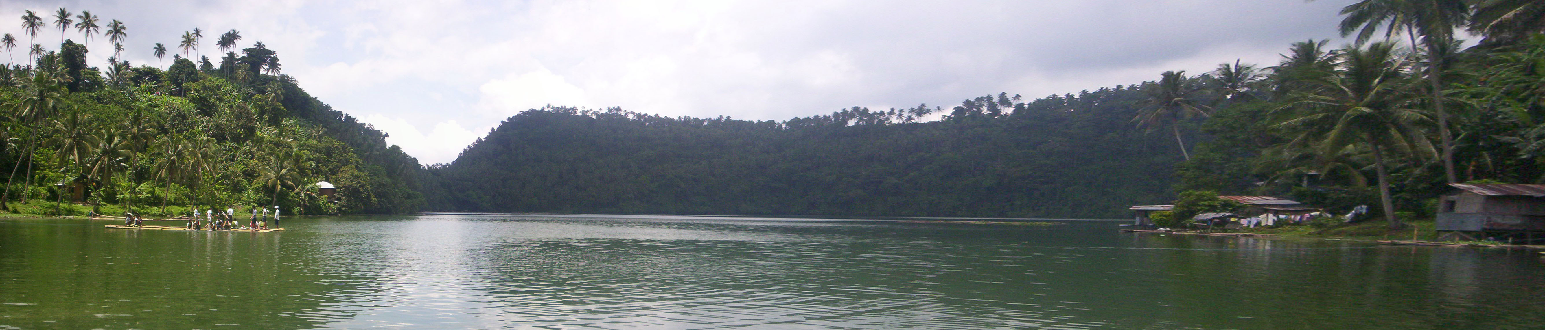 The panorama of Lake Pandin.